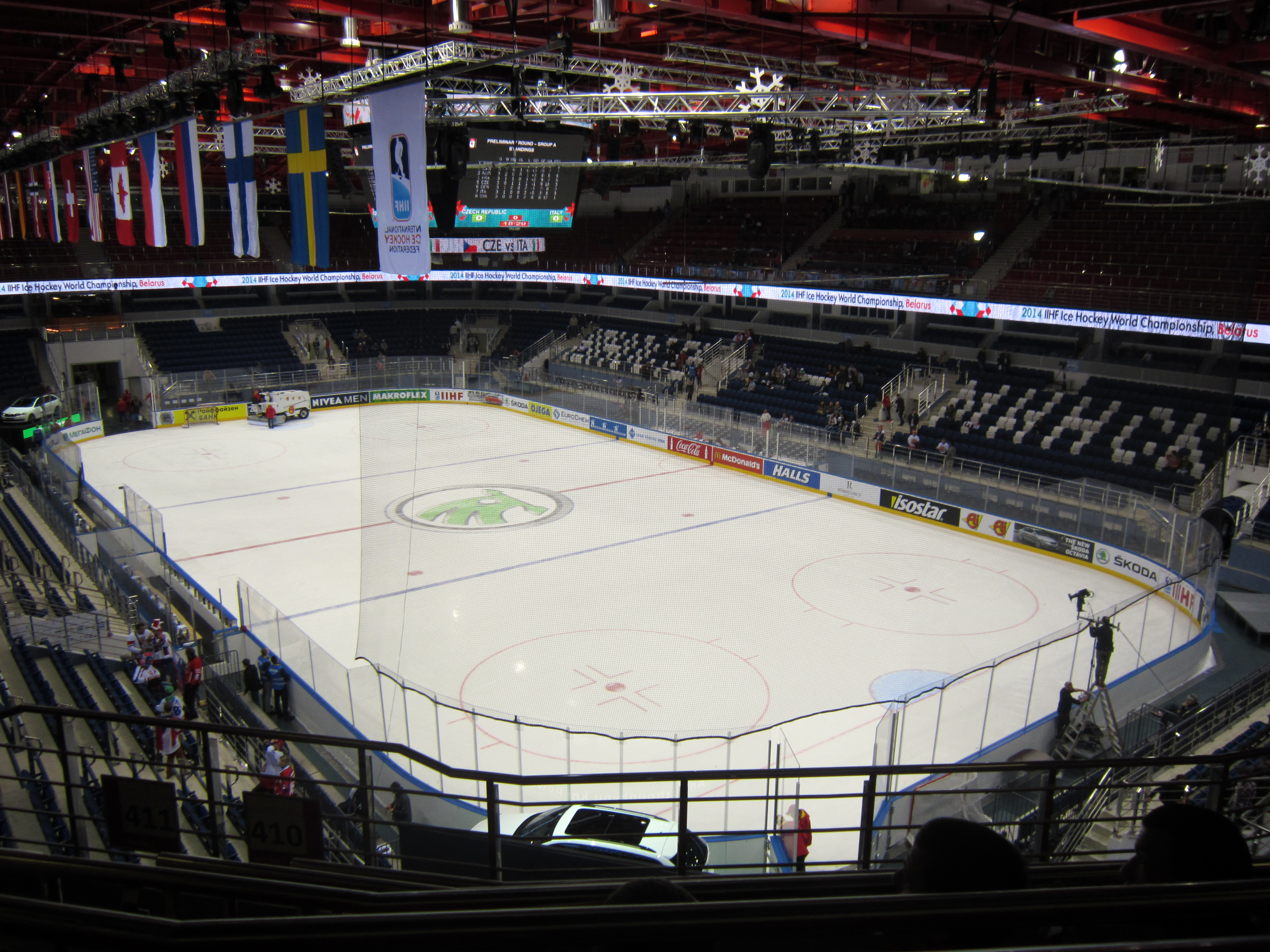 Inside view of Chizhovka-Arena (Minsk, Belarus)